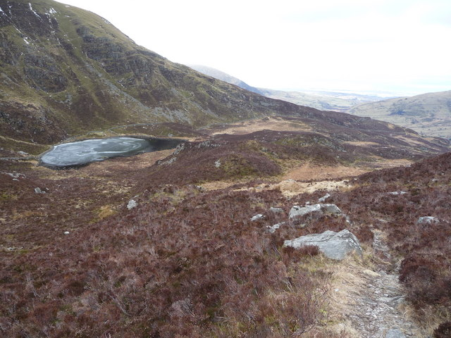 Llyn Perfeddau Hidden, quiet mountain lake.